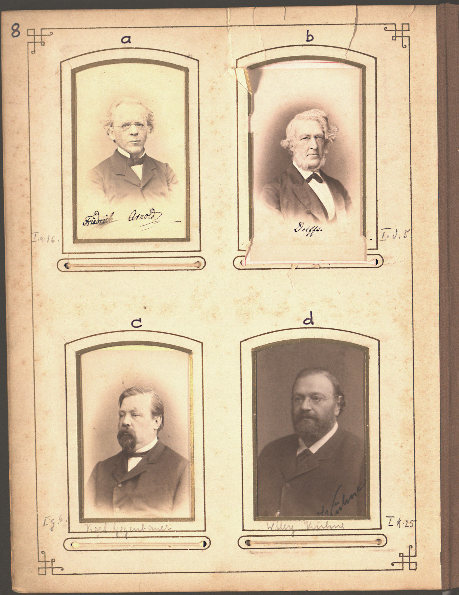 Depicting a: Arnold, (Philipp) Friedrich. b: Delffs, (Friedrich) Wilhelm (Hermann). c: Gegenbaur, Carl. d: Kühne, (Friedrich) Wilhelm